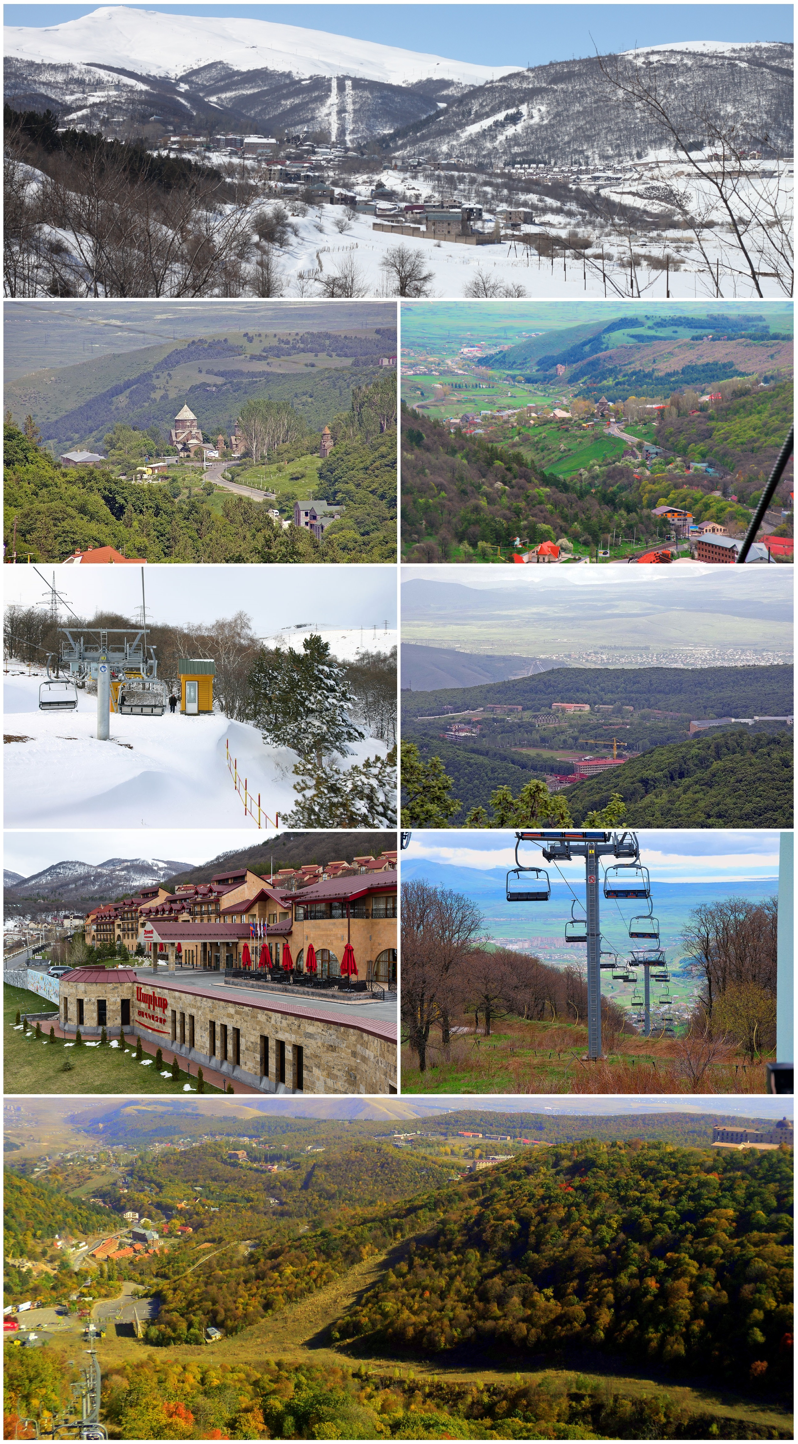 Tsaghkadzor town-resort, Armenia.